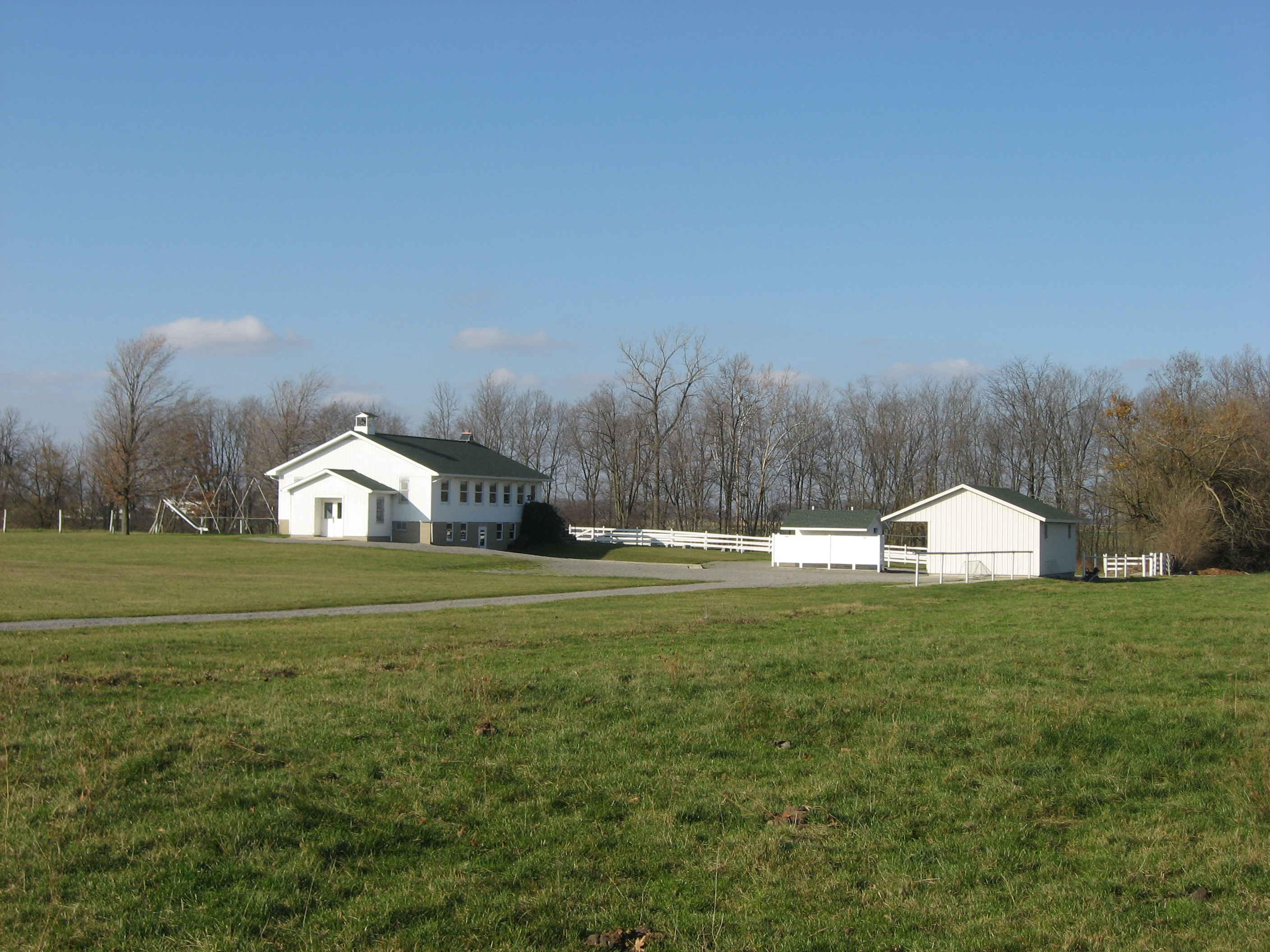 Roadside view of an Amish school located along the northern side of County Road 96 west of New Richland in Richland Township, Logan County, Ohio, United States.